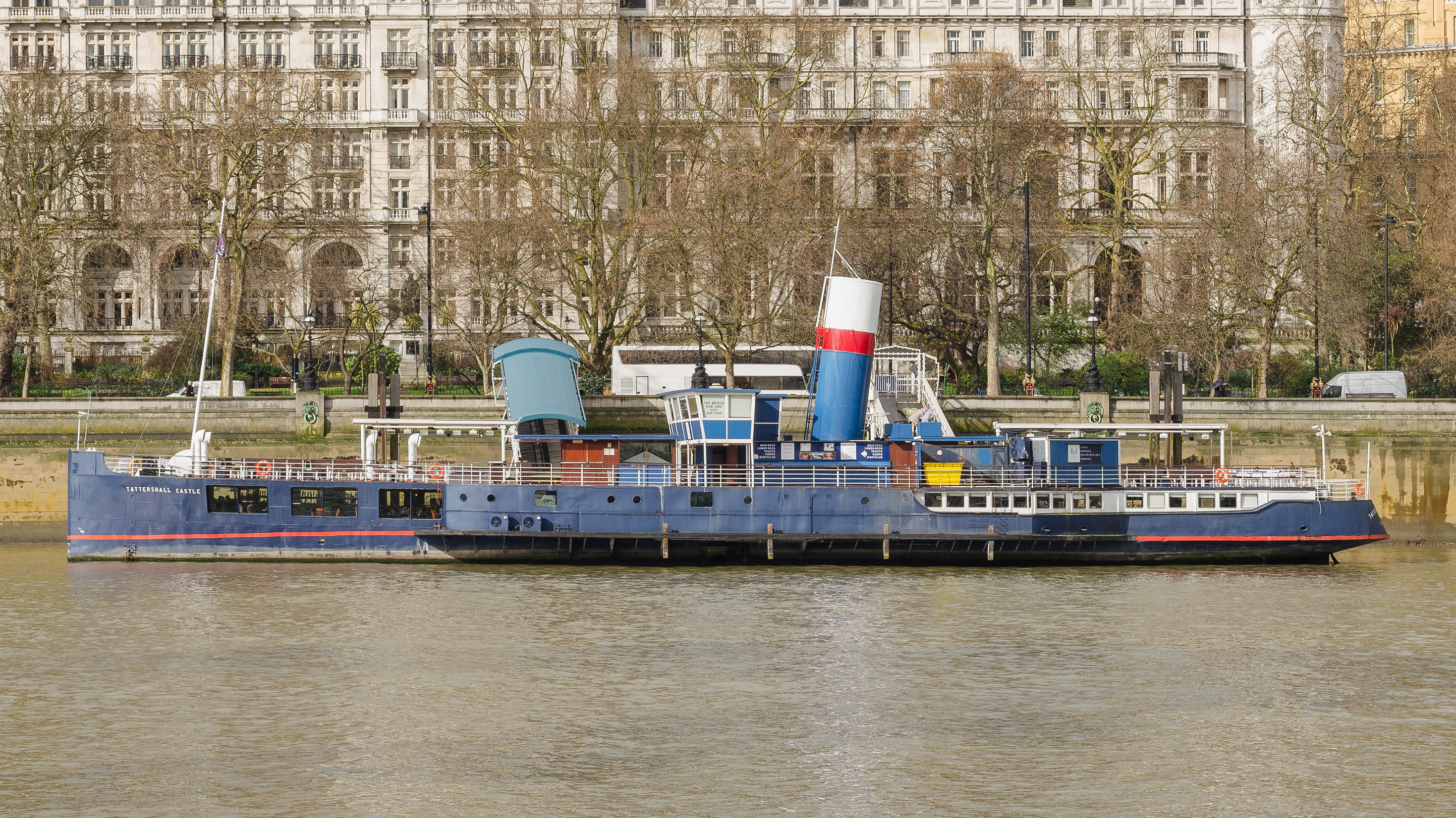 PS Tattershall Castle